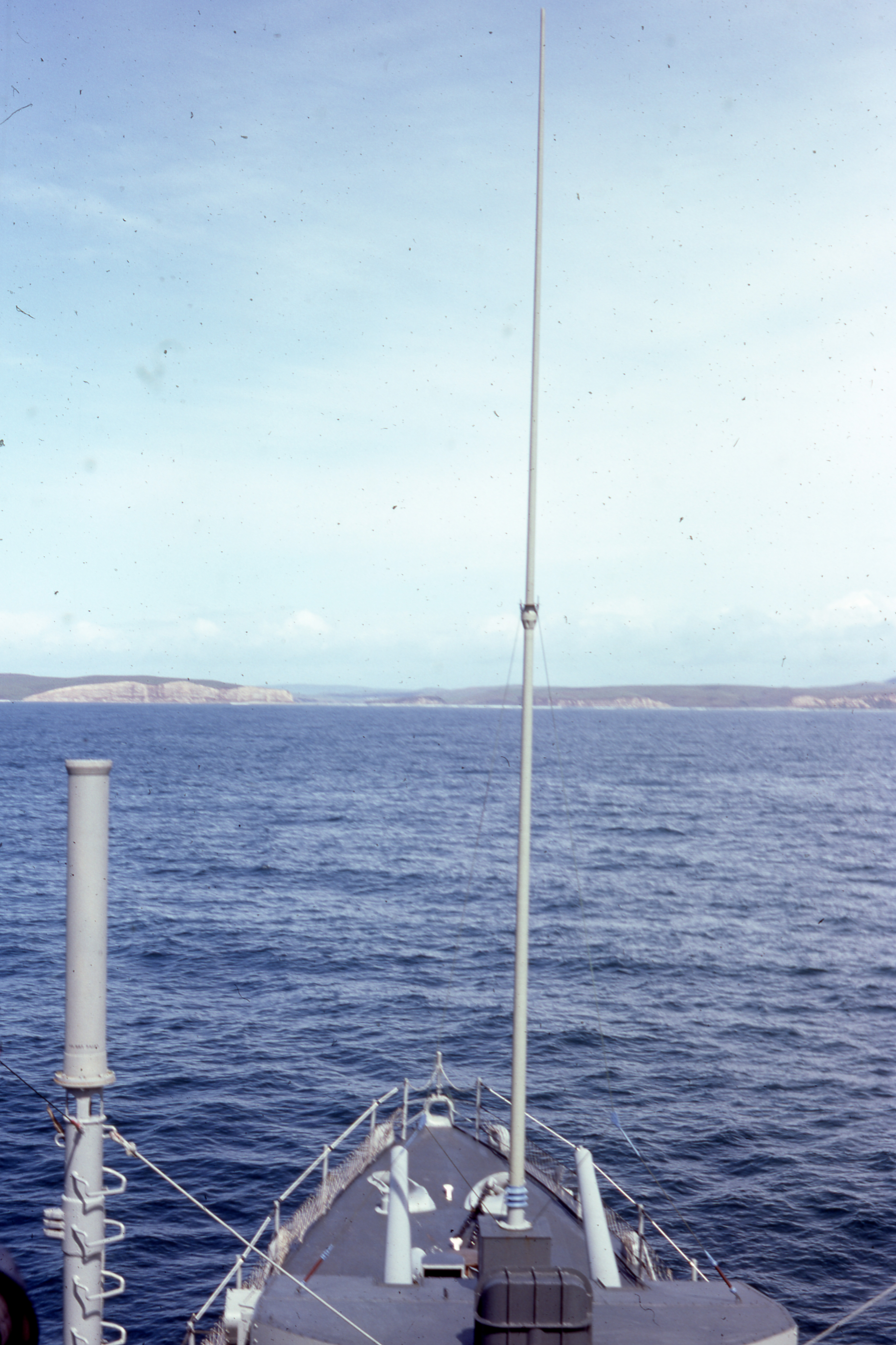 White cliffs of Drakes Bay seen from USS Wiltsie. This was taken as part of an evaluation of Drake's landing site at Drake's Cove in 1579. Adapted from a slide from the Drake Navigators Guild.